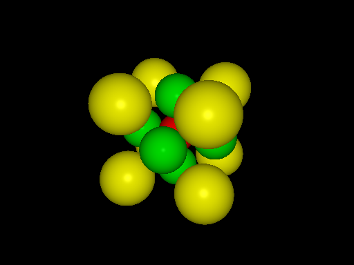 Perovskite structure (ABX3, ions: A - yellow, B - red, X - green). Picture made by Marek K. Misztal on January 15th, 2006.